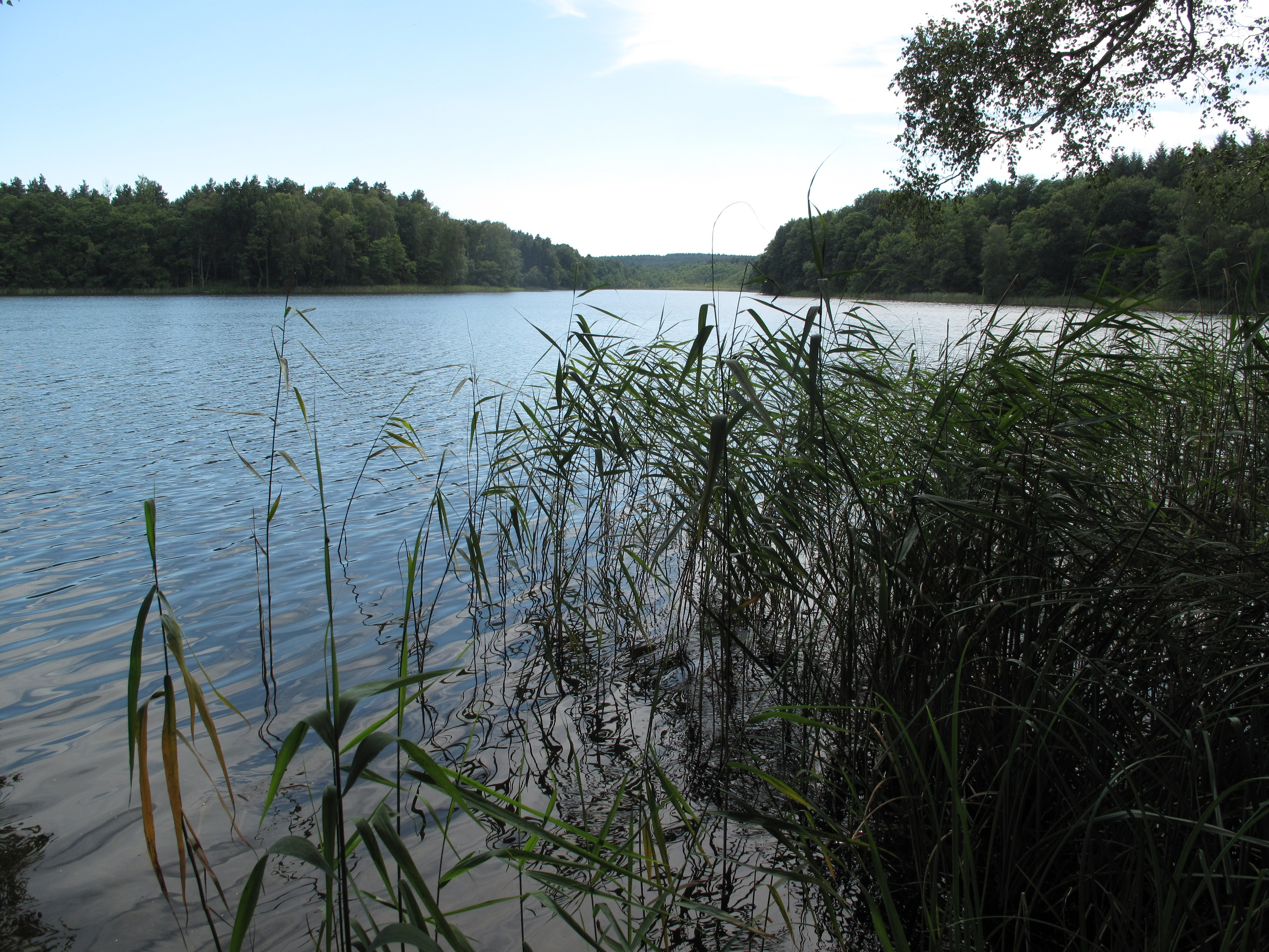 The Dolgensee is a lake in Ringenwalde, a village of the municipality Märkische Höhe in the District Märkisch-Oderland, Brandenburg, Germany. The lake covers 25 hectare and is situated in the Märkische Schweiz Nature Park.